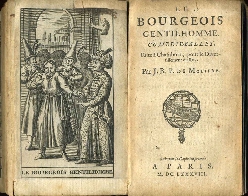 Frontispiece and titlepage from a 1688 edition of "Le Bourgeois Gentilhomme", "The Middle-class Nobleman", by Moliere.